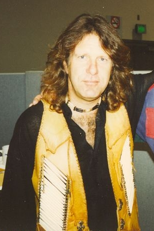 Photo of keyboardist Keith Emerson.